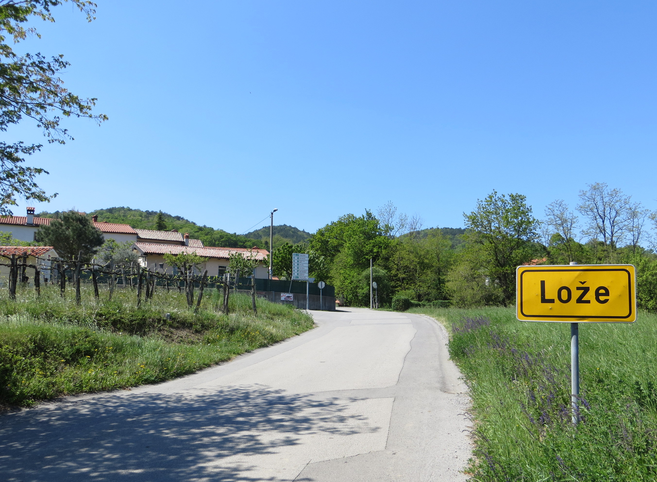 Lože, Municipality of Vipava, Slovenia